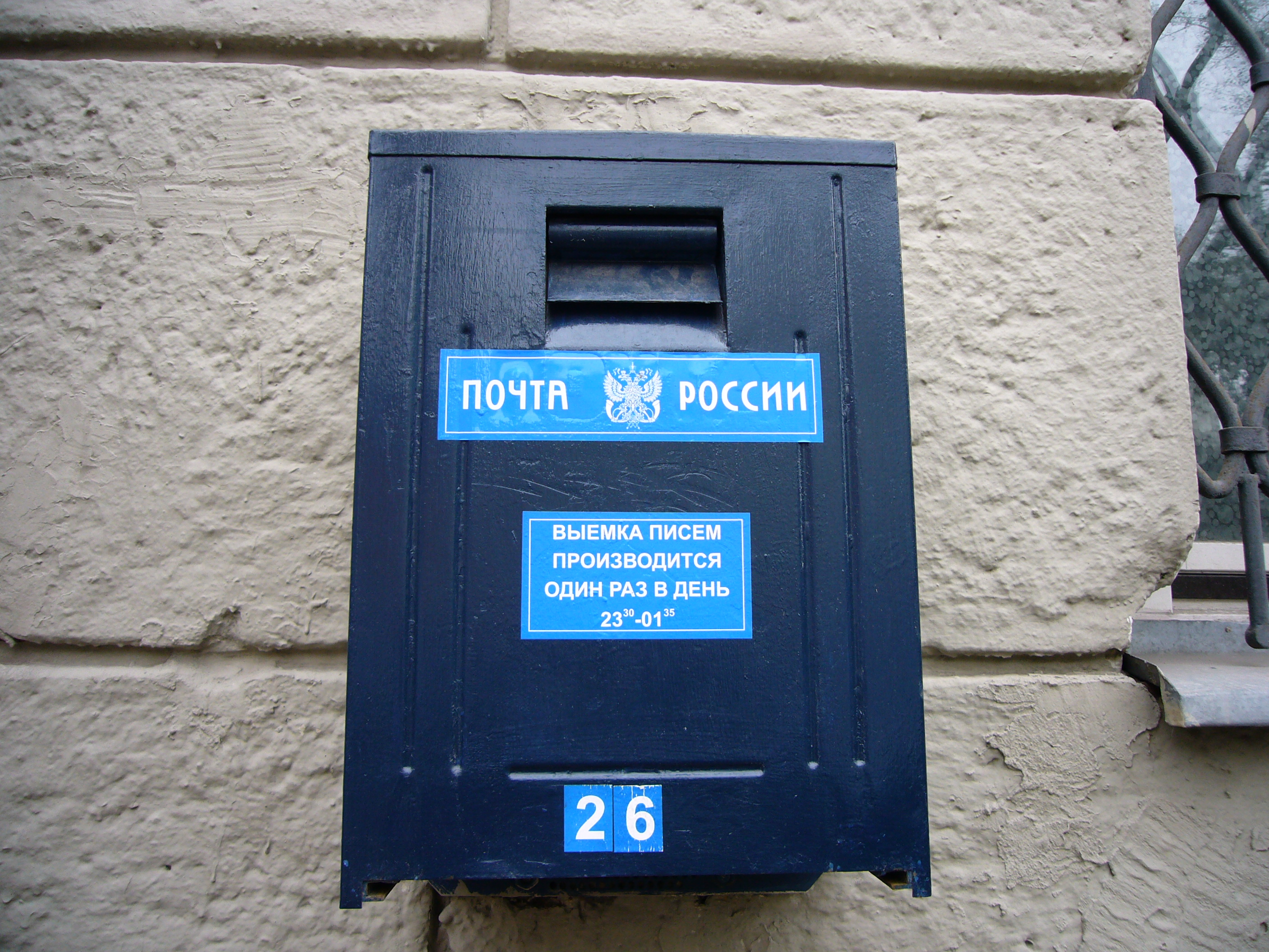 Post of Russia old mailbox in Moscow